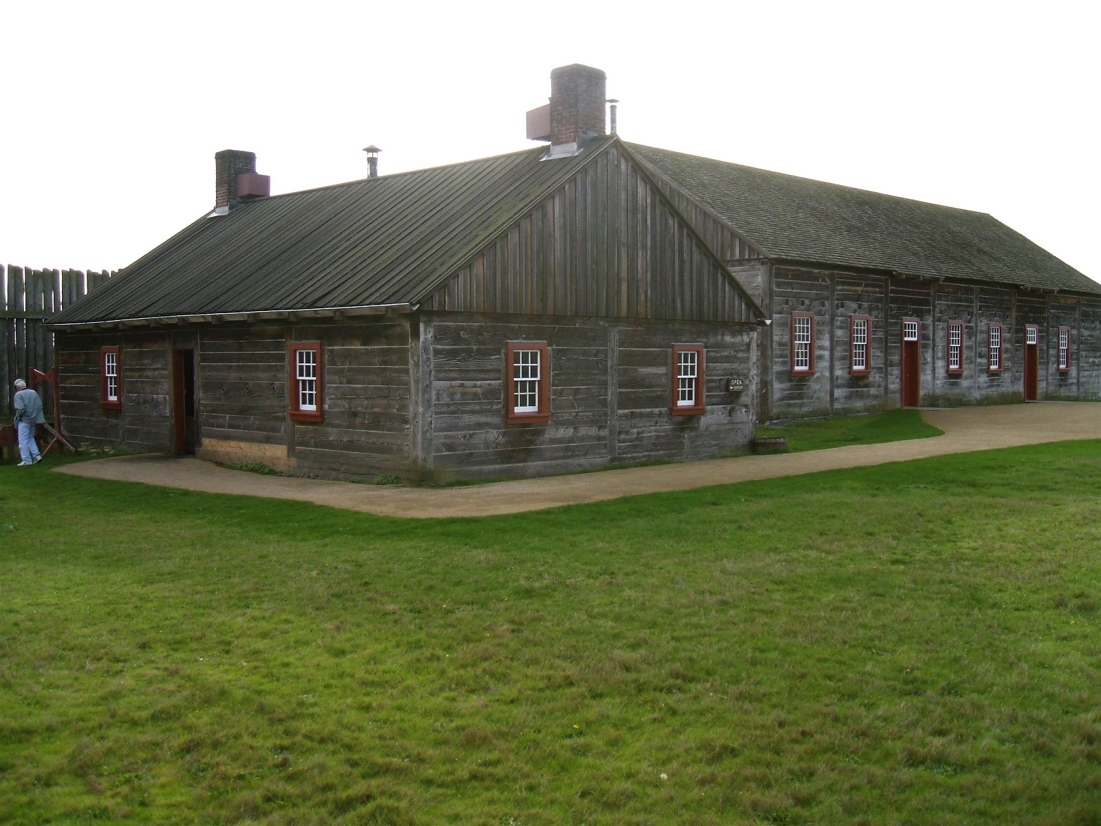 The Blacksmith Shop is where a lot of the Oregon country's useful metal items were created, not only the items needed to run the huge and bustling fort, but items for sale and trade to colonists and local Indians. The Indian Trade Shop & Dispensary (long building on the right) included a doctor's office, residence and small hospital as well as the trading store for local Indians who, for their furs, were able to purchase knives, gunpowder, blankets and other goods. Fort Vancouver National Historic Site, Washington